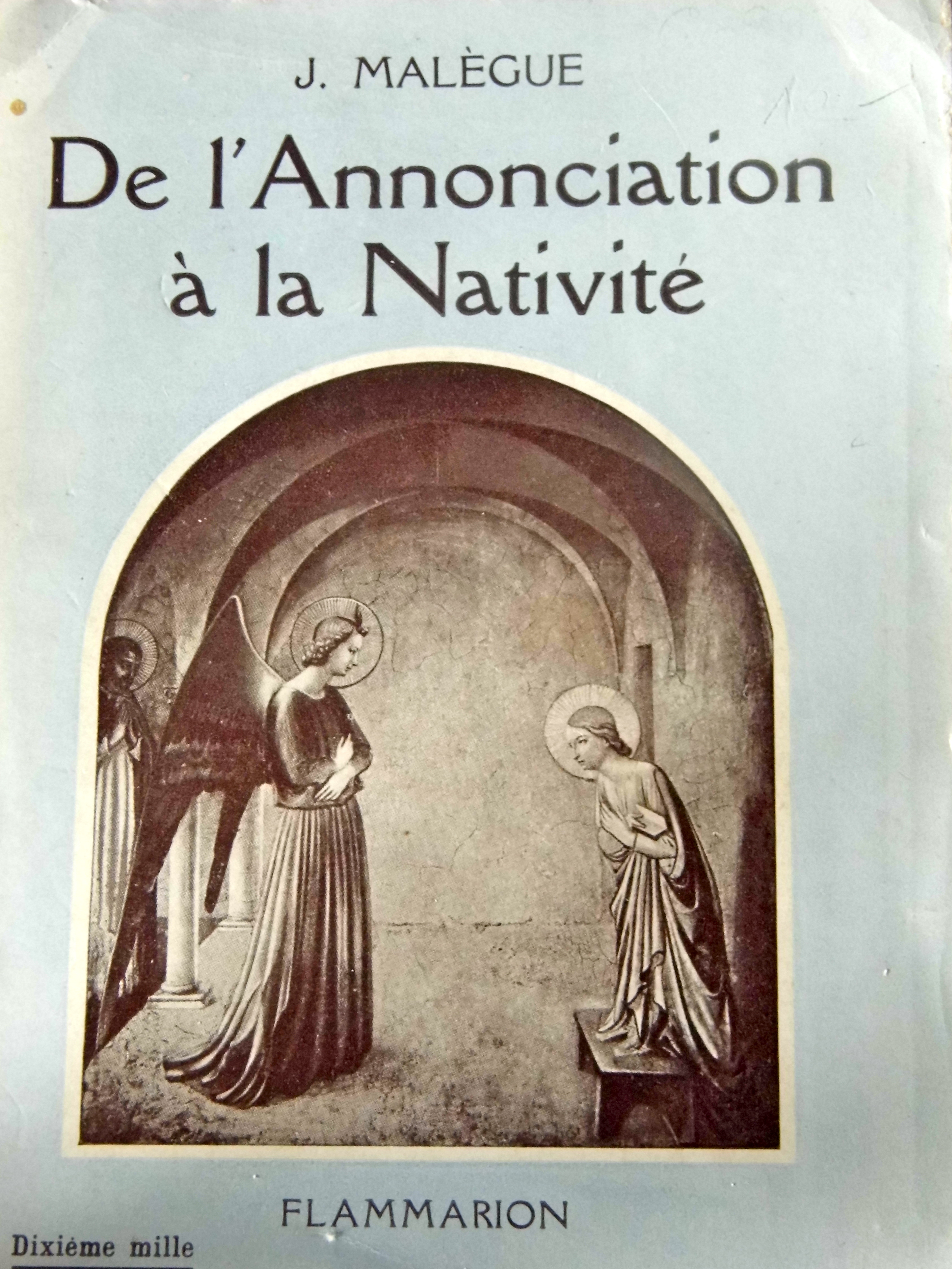 Malègue's book (1935)